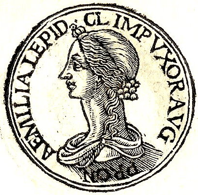 Aemilia Lepida (4/3 BC-53) was a noble Roman woman and matron. She was the eldest daughter and first born child of Julia the Younger (the first granddaughter of the Emperor Augustus) and consul Lucius Aemilius Paullus.